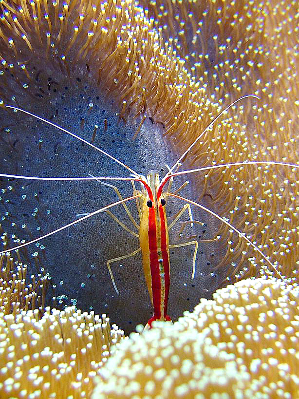 Shrimp Jacques from 'finding nemo' is cleaning the aquarium.